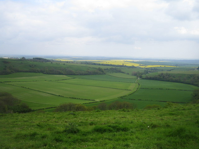 Lyscombe Bottom near Higher Melcombe 1 This view from Lyscombe Hill at a height of about 240m and looking south-east is of Lyscombe Bottom. This is a coombe, a steep sided dry valley formed in freely draining chalk downland. Traces of medieval settlement patterns and some barrows (mounds of earth and stones raised over a grave) have been found in Lyscombe Bottom. On the nearby hills are numerous cross dykes, tumuli and a hill fort. In the middle distance two woods almost meet at about 130m, and Lyscombe Farm can just be seen amongst the trees. Barely visible in the far distance beyond the Frome valley are the Purbeck Hills.